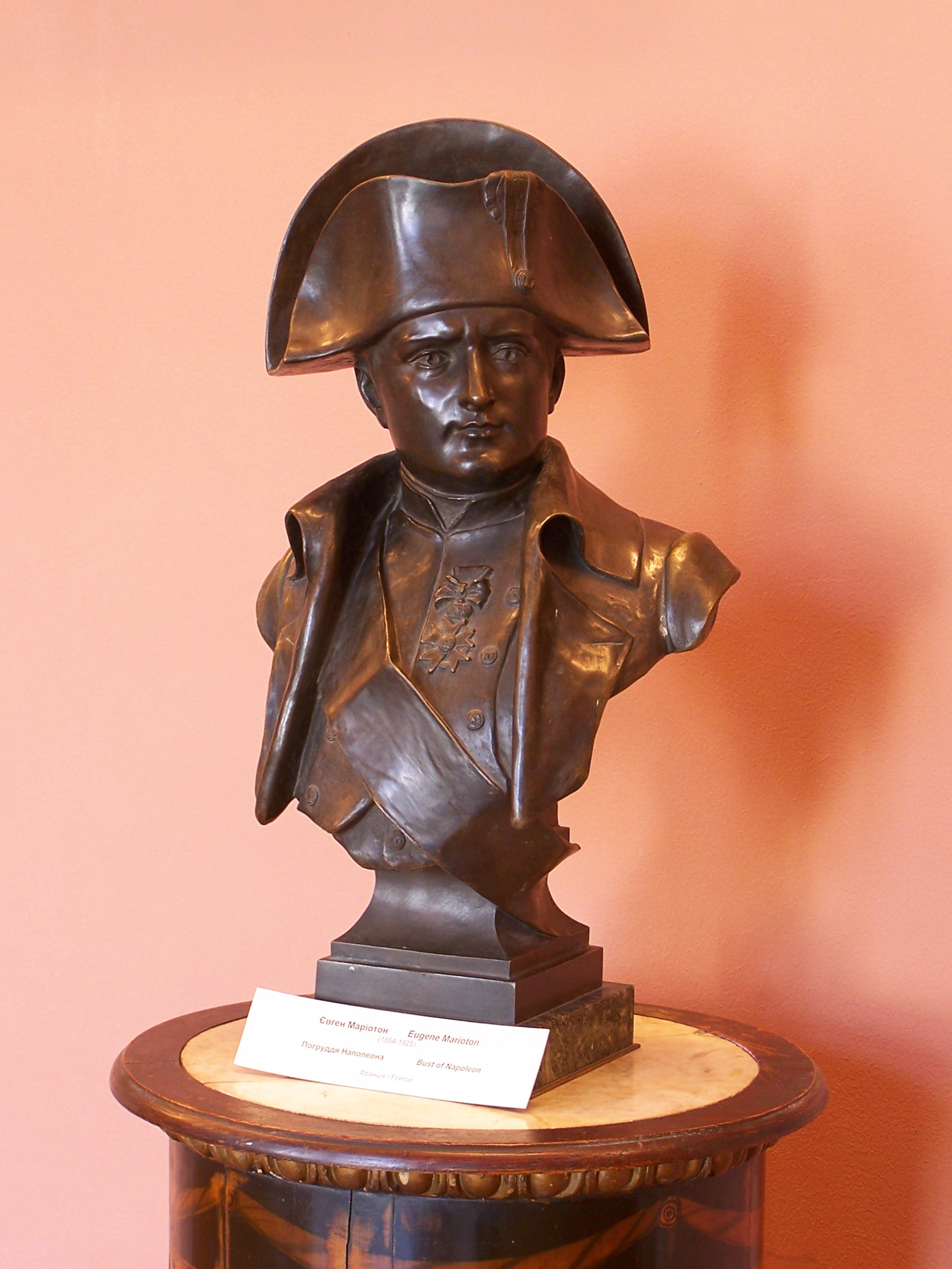 Eugene Marioton (1857 - 1933) - Bust of Napoleon. Gallery of Art in Lviv.